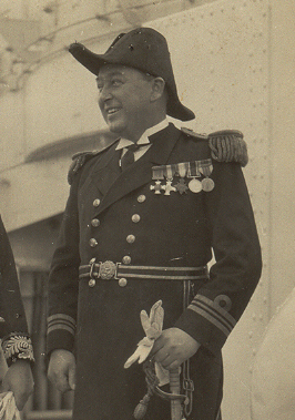 Captain Russell Hamilton McBean DSO DSC, when serving as Lieutenant-Commander, Royal Navy. Commander of CMB 31 BD during the Raid on Kronstadt, for which he received the Distinguished Service Order.